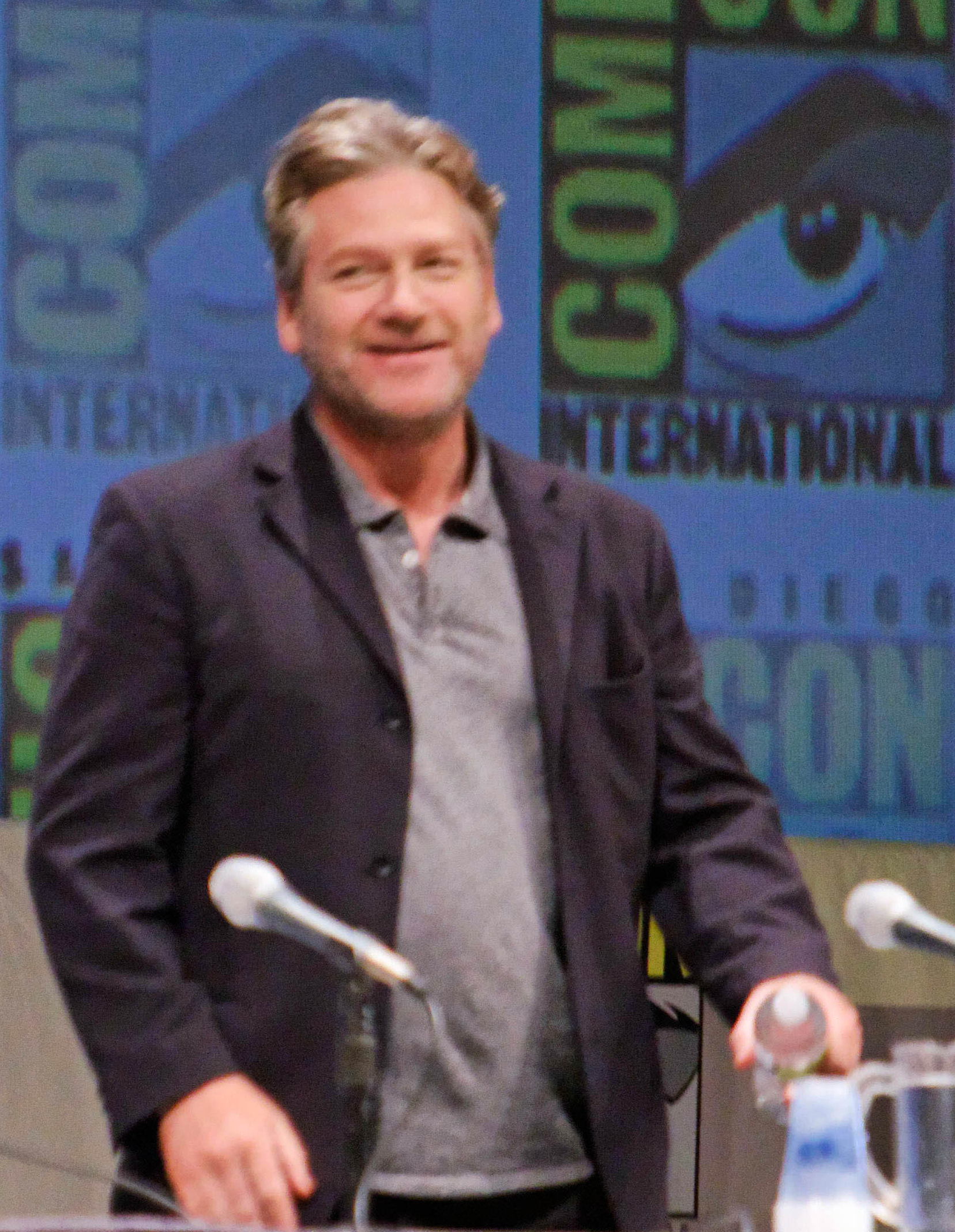 Kenneth Branagh at the 2010 San Deigo Comic-Con International.